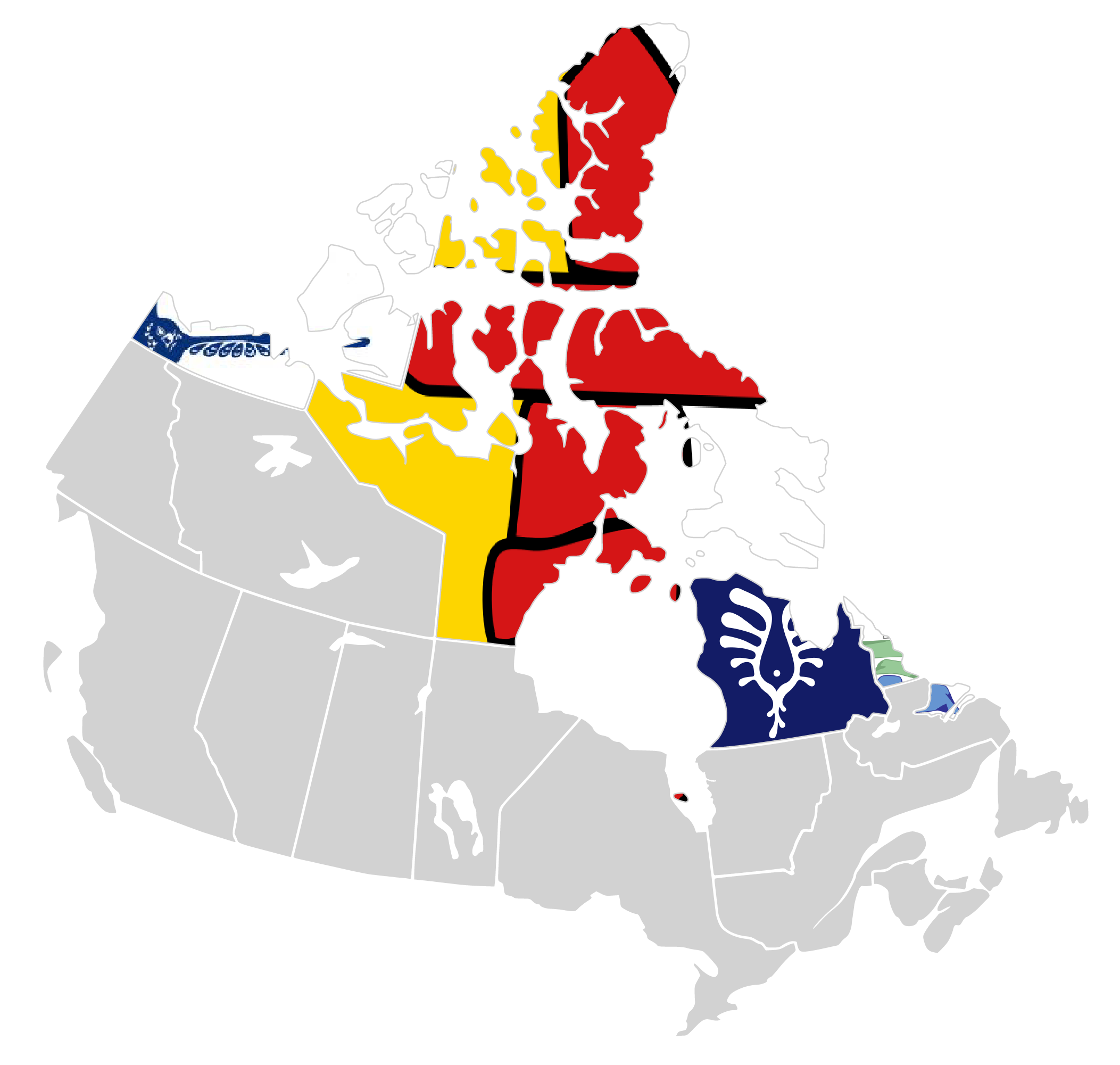 Transparent map of Inuit Tapiriit Kanatami